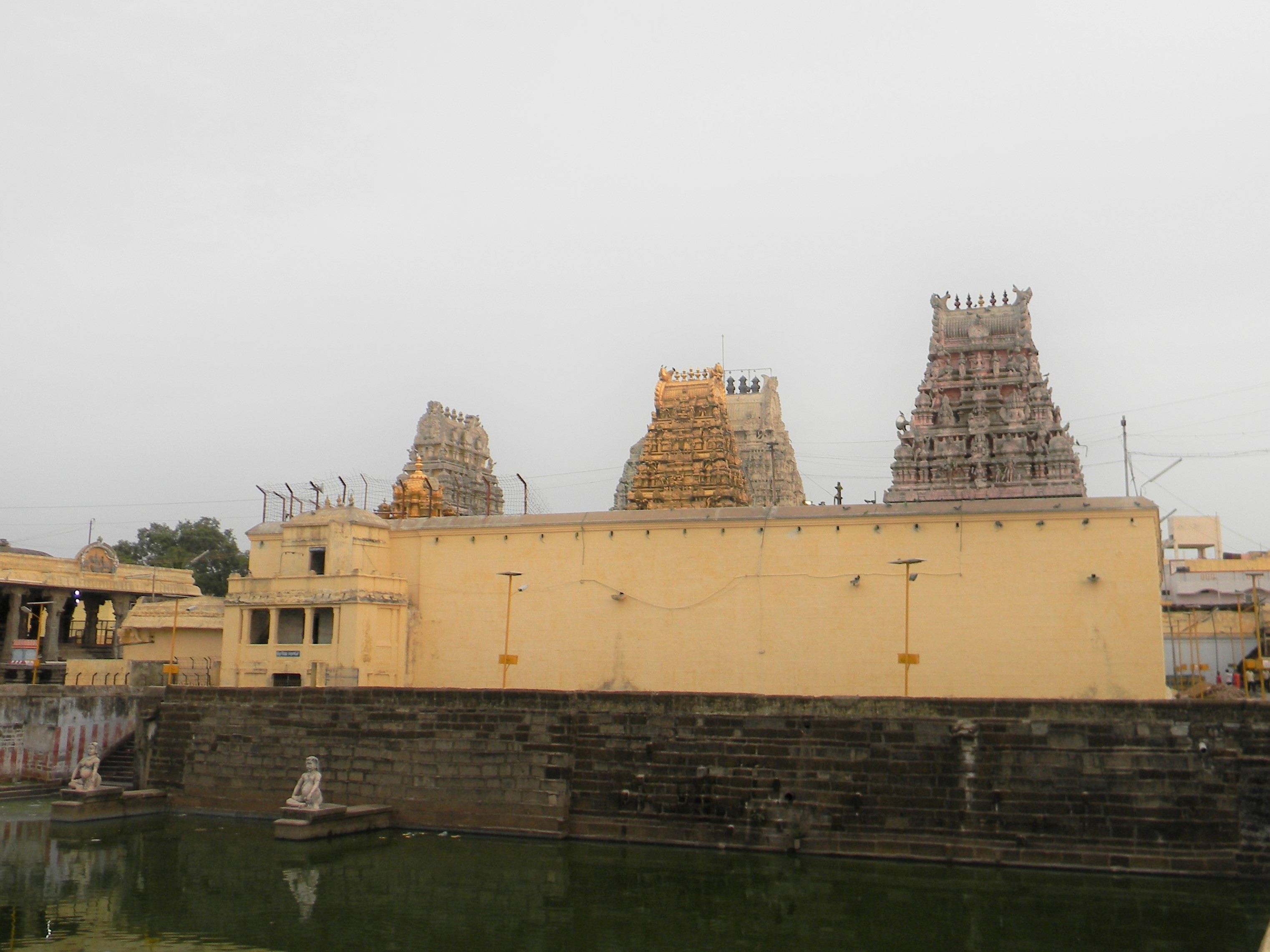 Kamakshi Amman Temple with the golden overlays over gopurams.